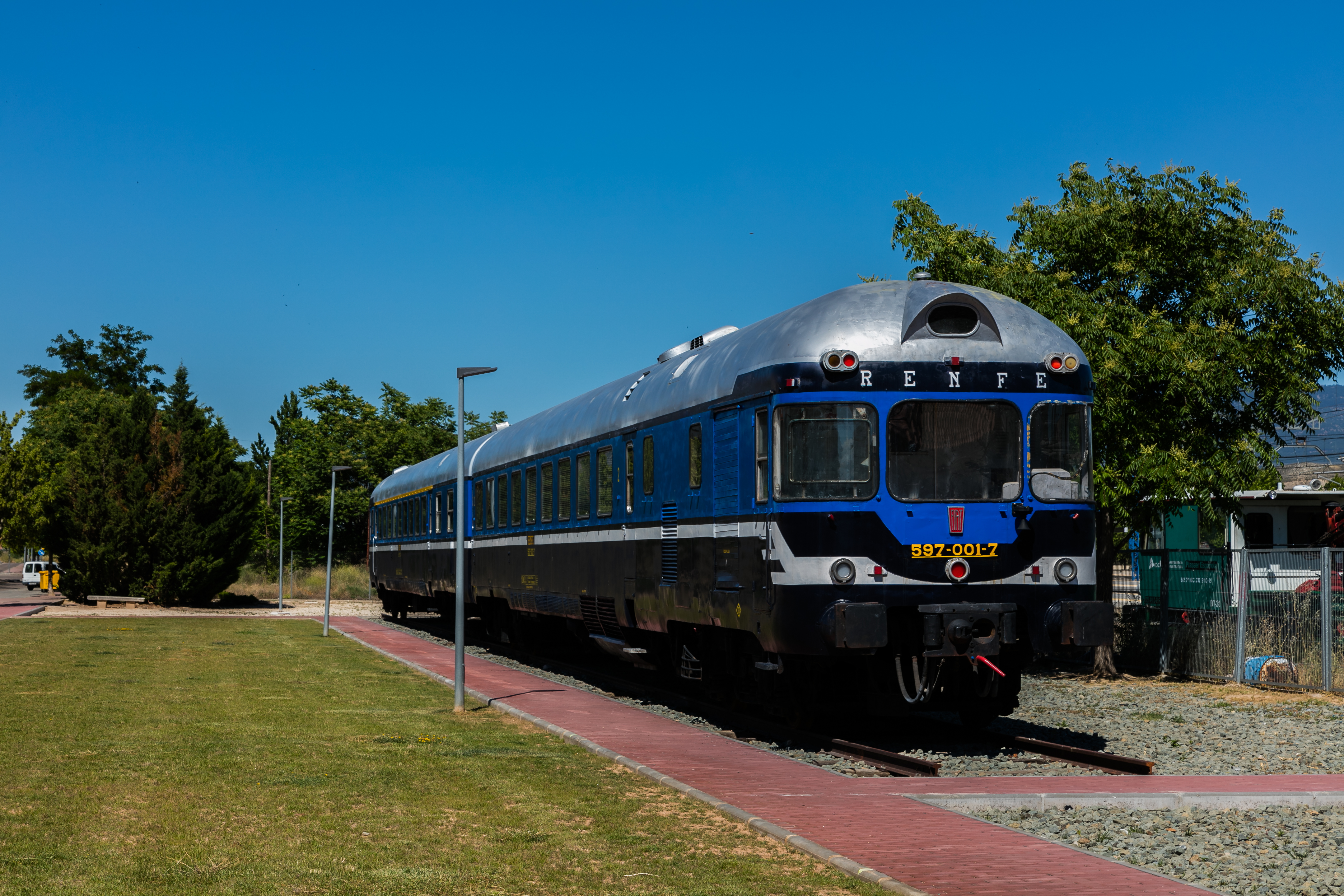 Exhibition TER train, model Fiat TER 9701, Calatayud, Spain